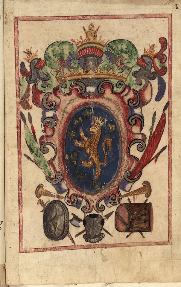 Stemma famiglia Notarbartolo, 1282 d.C., Archivio di Stato di Palermo